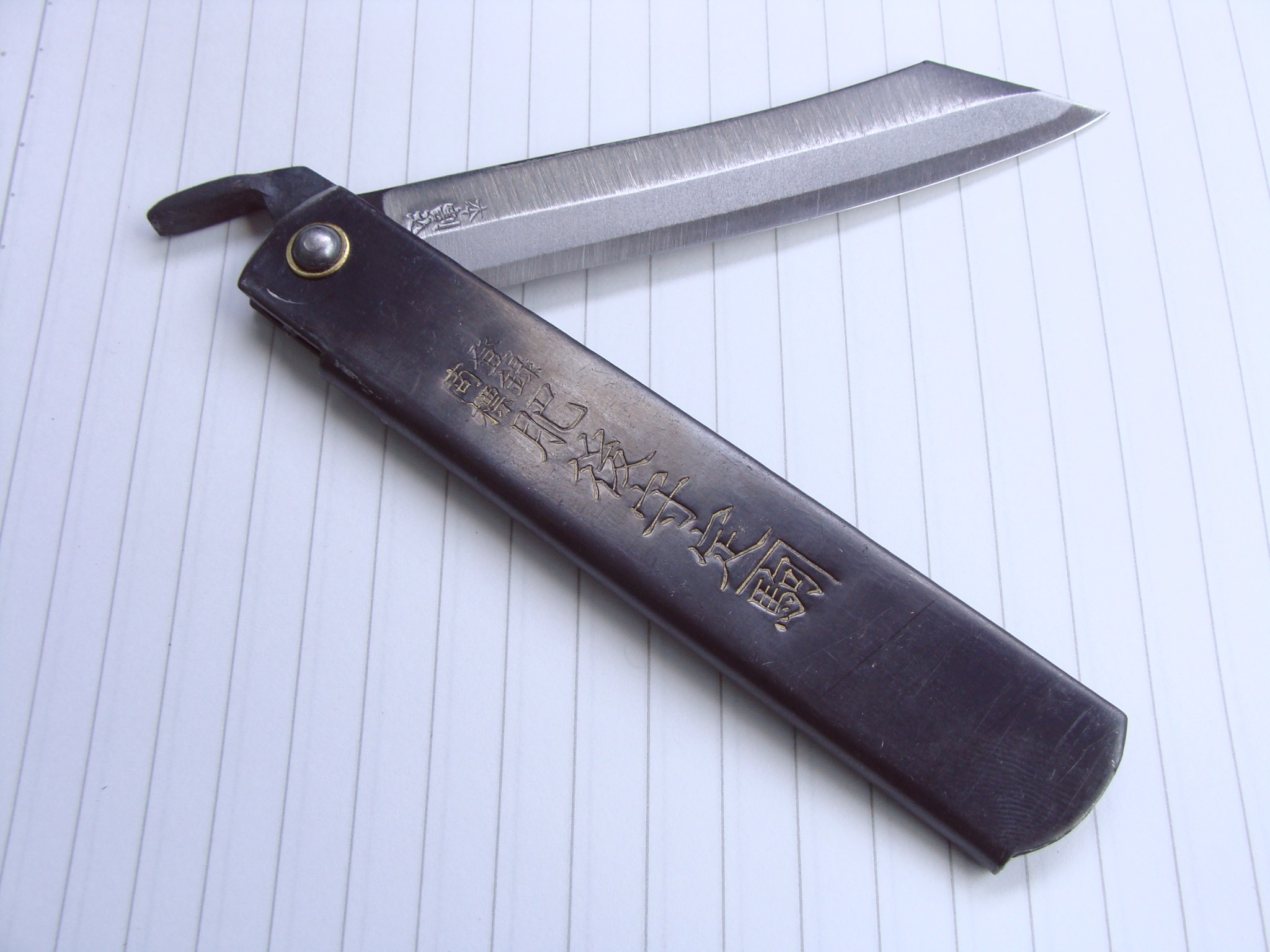 Nagao-koma factory (Kanekoma) Higonakami (Japanese traditional knife) / Higomorisada Kanekoma / Black grip model